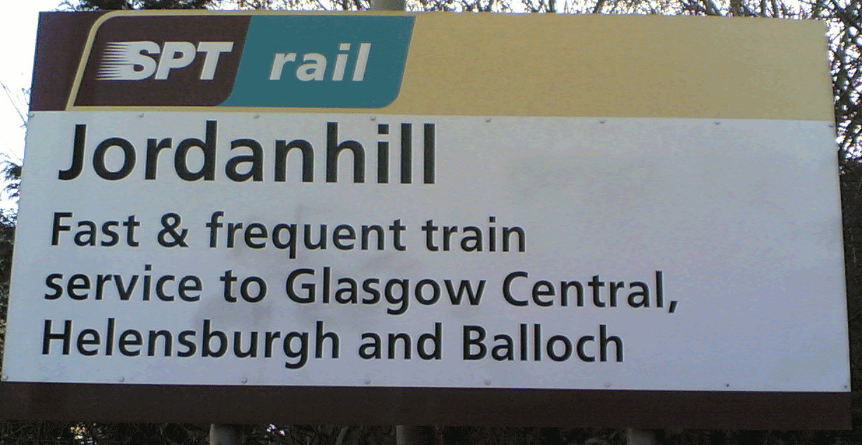 Jordanhill railway station, Glasgow: Identification sign outside the station. Picture taken by Erath on March 2, 2006 =